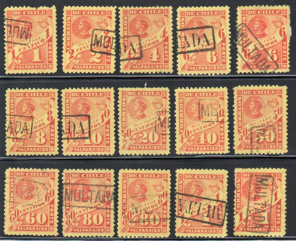 Chile postage due set 1895, used Sc. J19-30